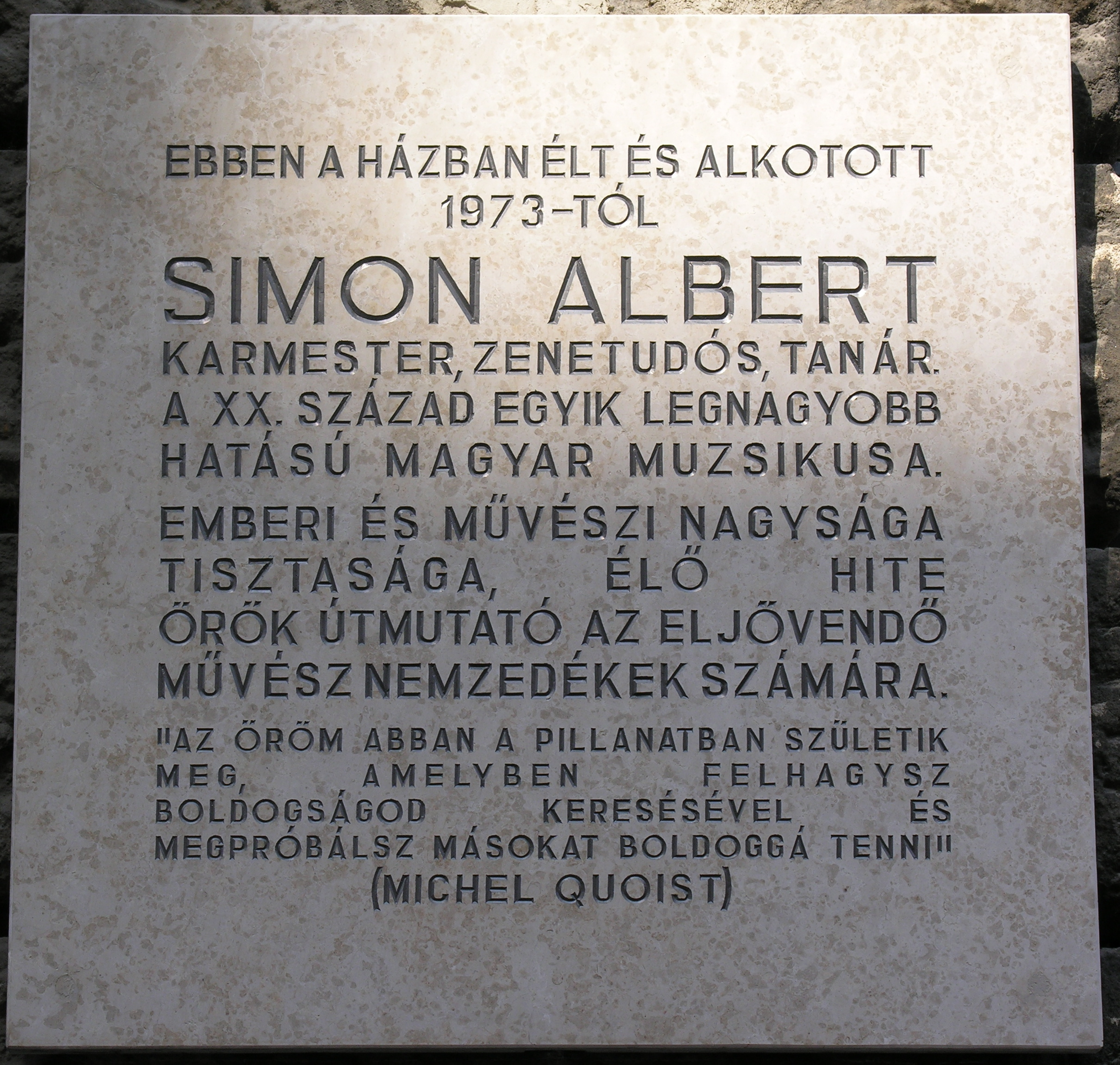 Commemorative plaque of Albert Simon in Budapest District V, Zoltán Street No 12